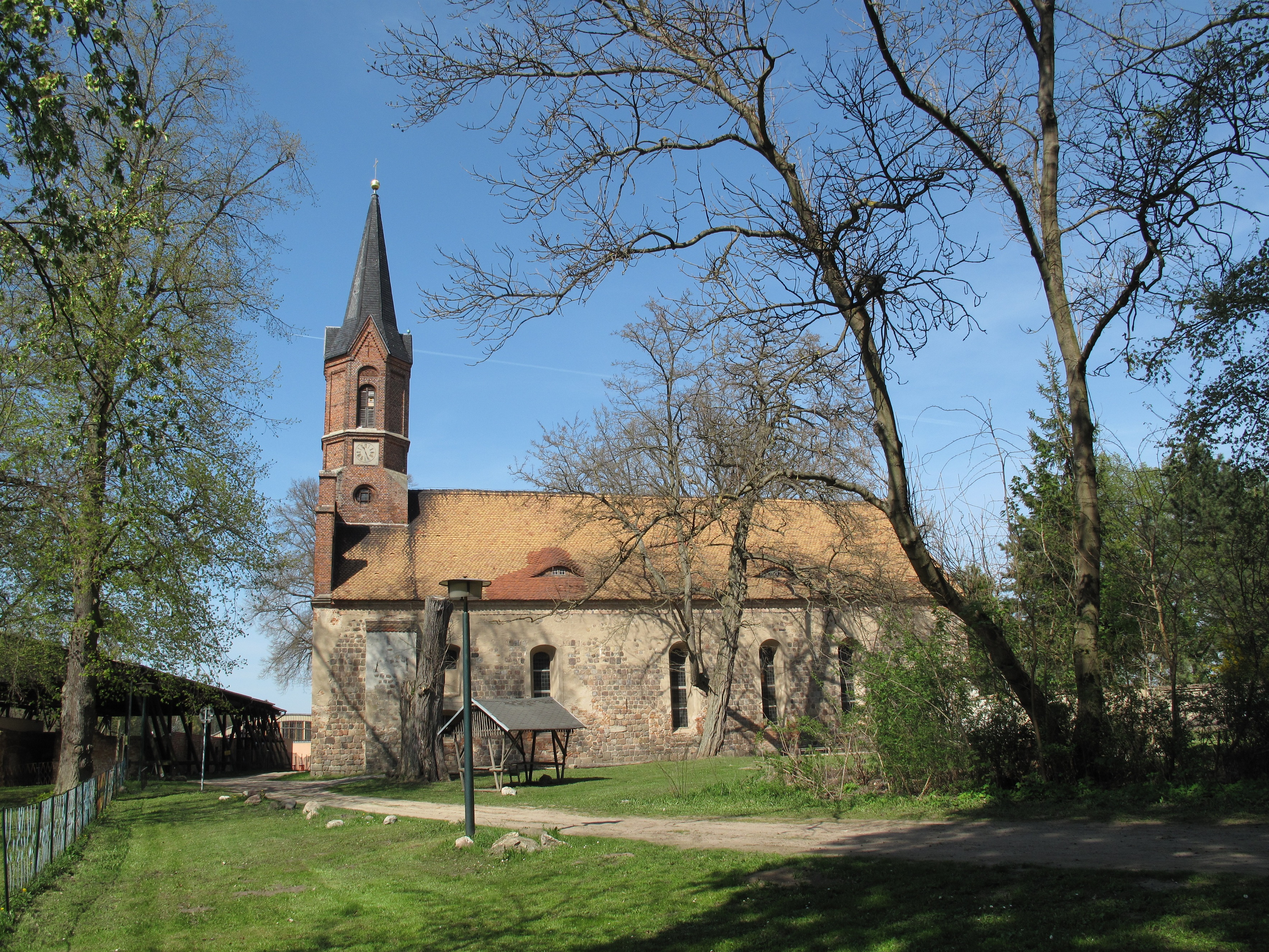 The listed Klosterkirche Altfriedland is the former church of the Cistercian Nunnery Friedland in Altfriedland, a village of the municipality Neuhardenberg in the District Märkisch-Oderland, Brandenburg, Germany. The early gothic-Fieldstone church was remodelled several times and is used today as Protestant village church. It was built around 1250. The picture shows the south facade.